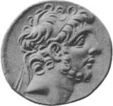 Coin of Antiochus IX Cyzicenus